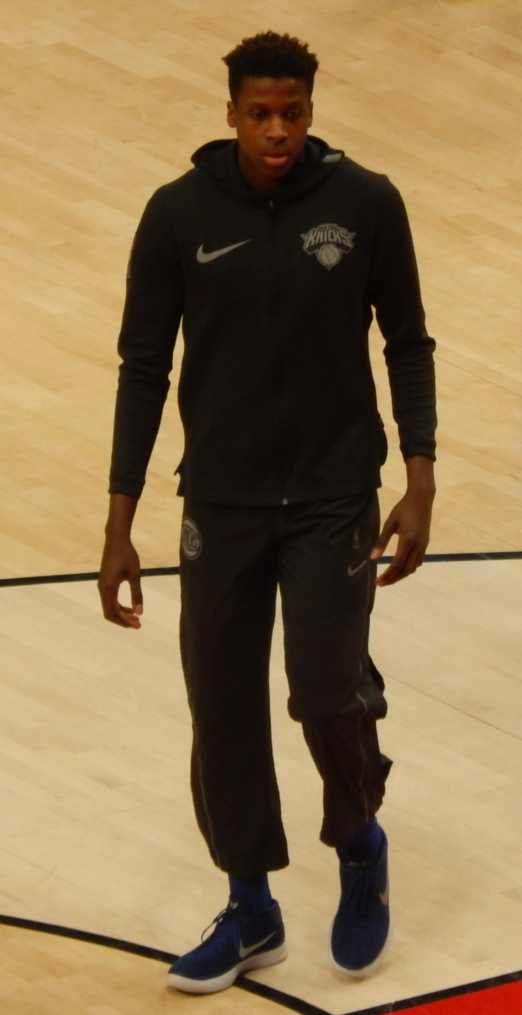 Frank Ntilikina #11 of the New York Knicks against the Portland Trail Blazers on March 6, 2018 at Moda Center in Portland, Oregon.